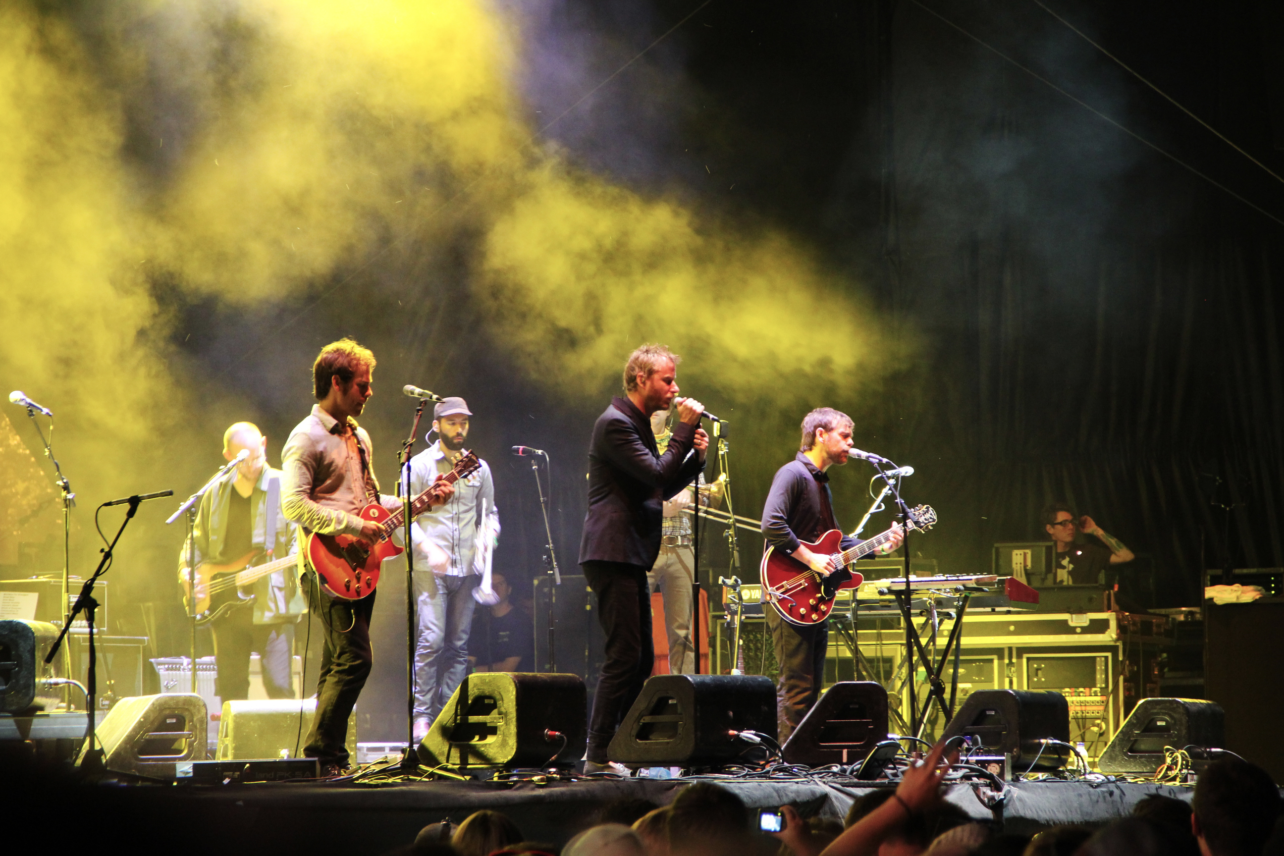 Rock band The National plays at Osheaga Festival in Montreal, Québec, Canada, on 31 July 2010.